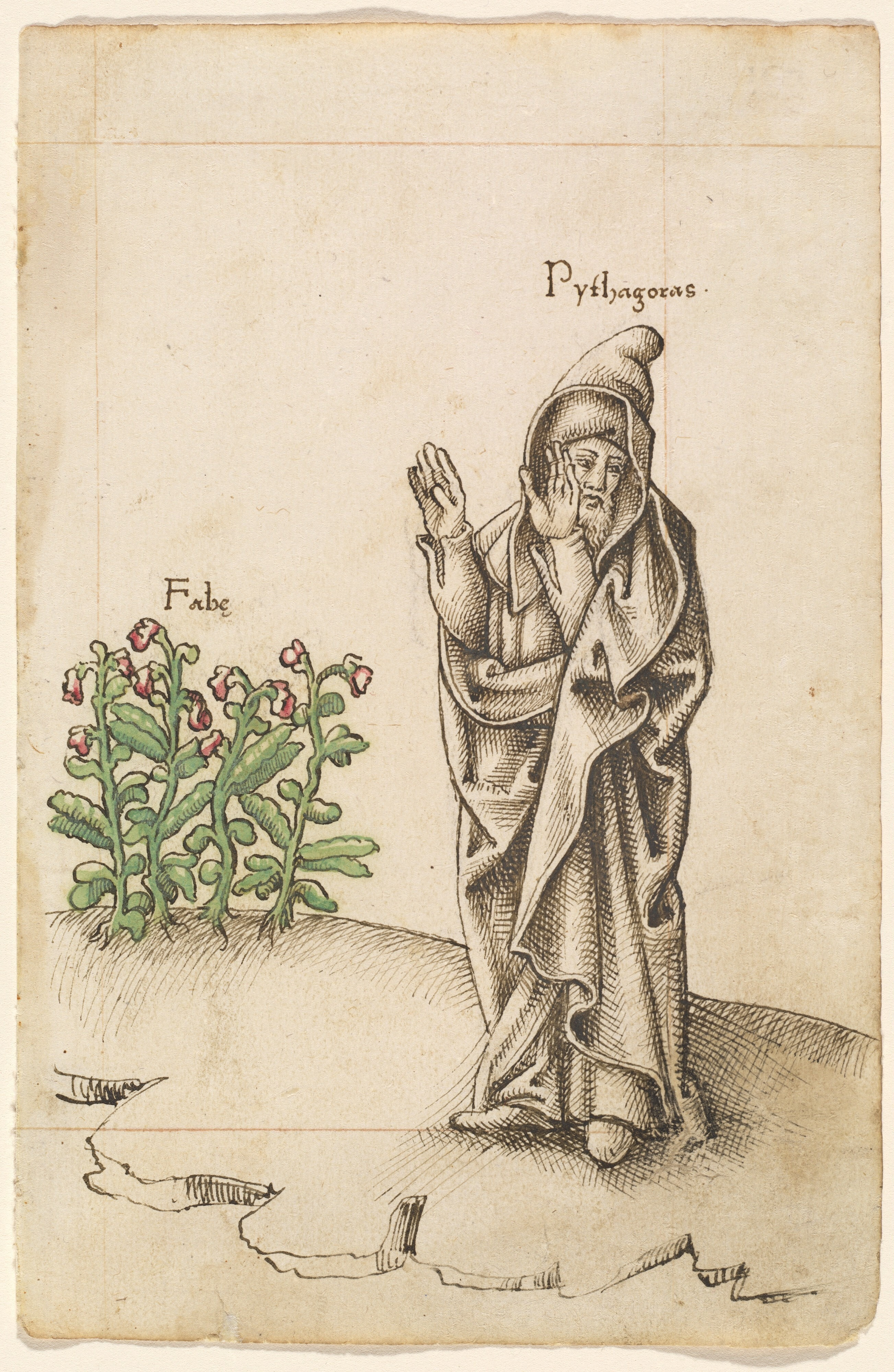 Do Not Eat Beans, [fol. 25 recto], pen and brown ink with watercolor on laid paper, overall: 16.3 x 10.7 cm (6 7/16 x 4 3/16 in.), Woodner Collection, Gift of Andrea Woodner, 2006.11.45, National Gallery of Art